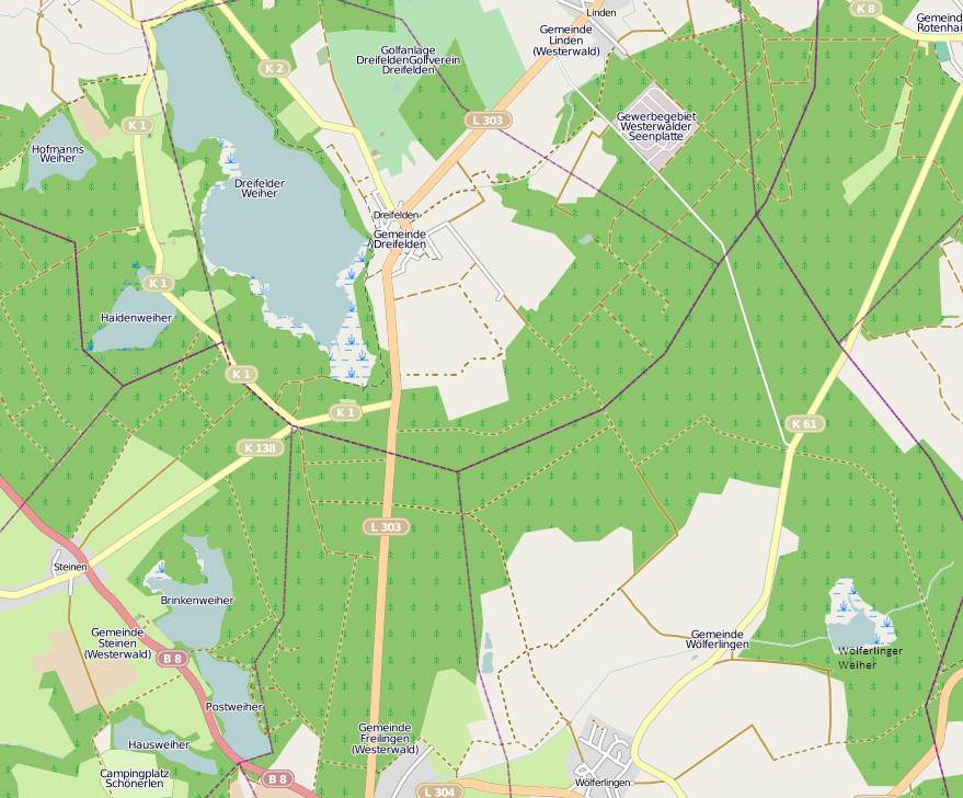 This map may be incomplete, and may contain errors. Don't rely solely on it for navigation. It show the Westerwälder Seenplatt in Rhinland-Palatinate, Germany.